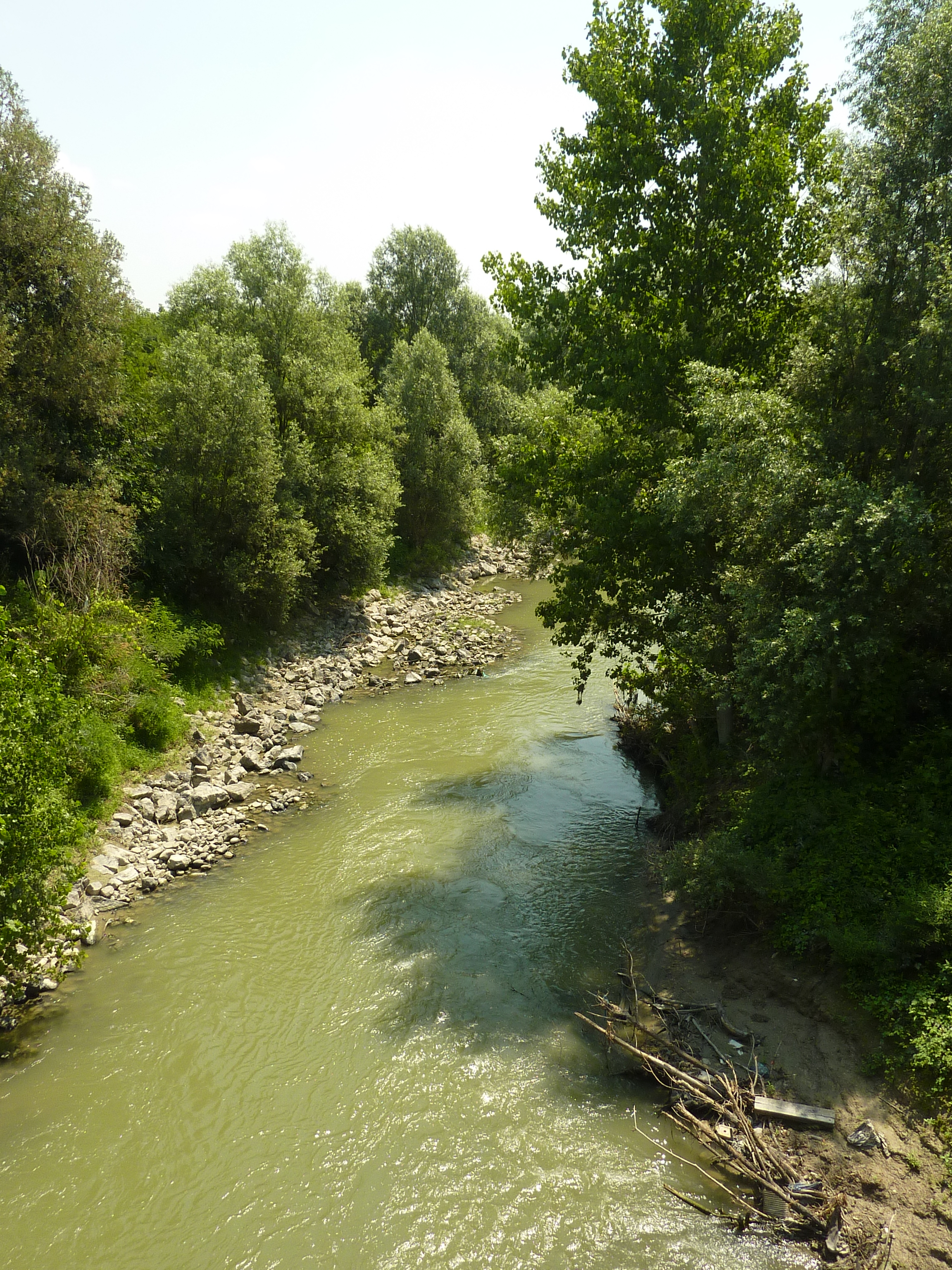 The river Parma seen from the bridge Albertelli at Mezzano Rondani (Parma)